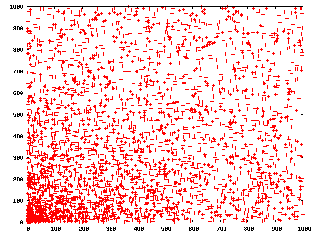 Points u,v for which 2^u3^v+1 is a Pierpont prime